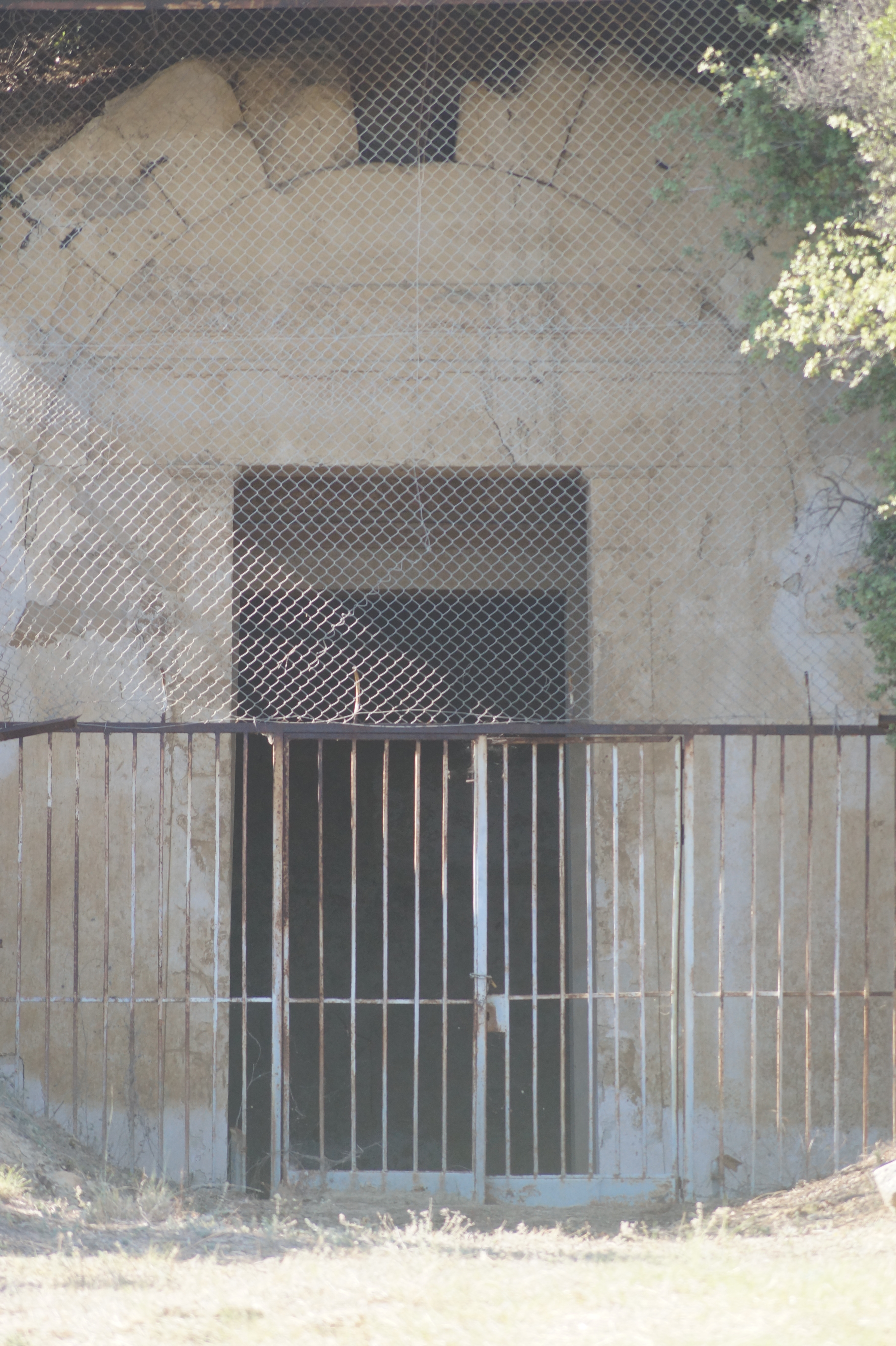 Sykia, Makedonia, Greece: Entrance of the macedonian tomb 2 east of Sykia.